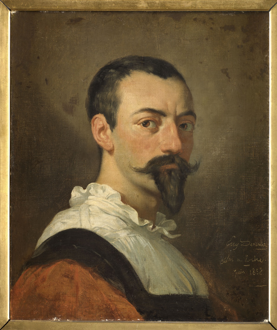 Self-portrait of French painter Eugène Devéria (1805-1865). Etching by Paul Lafond (1847-1918)